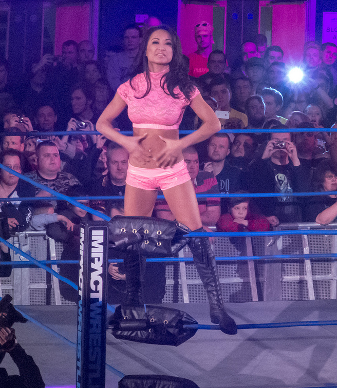 Gail Kim in 2013.